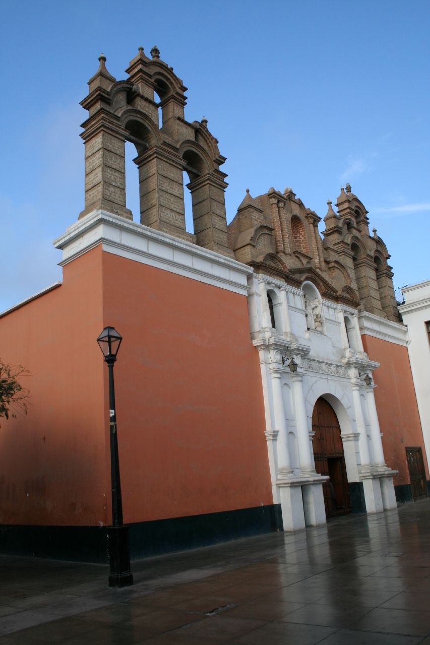 Iglesia La Merced